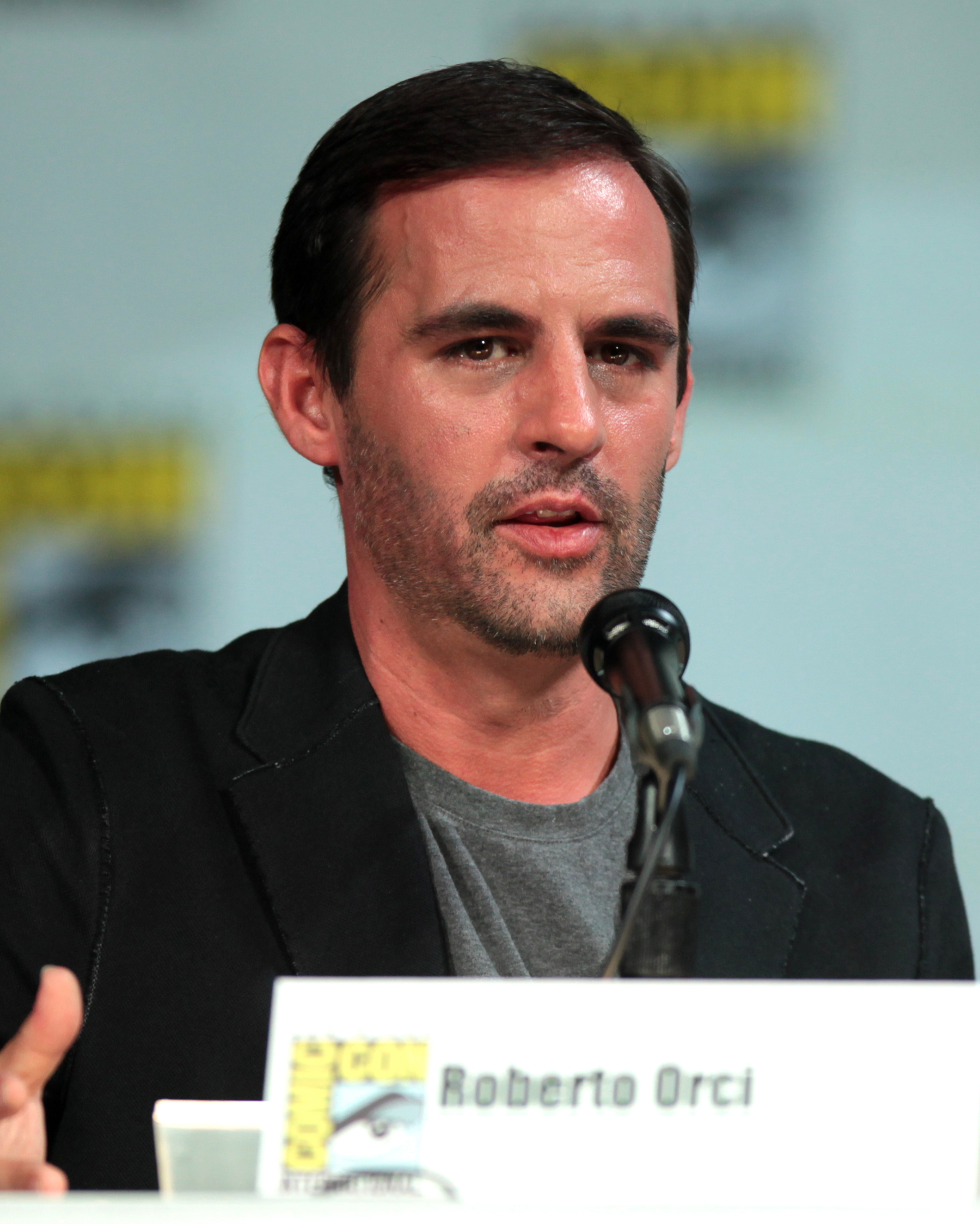 Roberto Orci speaking at the 2014 San Diego Comic-Con International in San Diego, California.